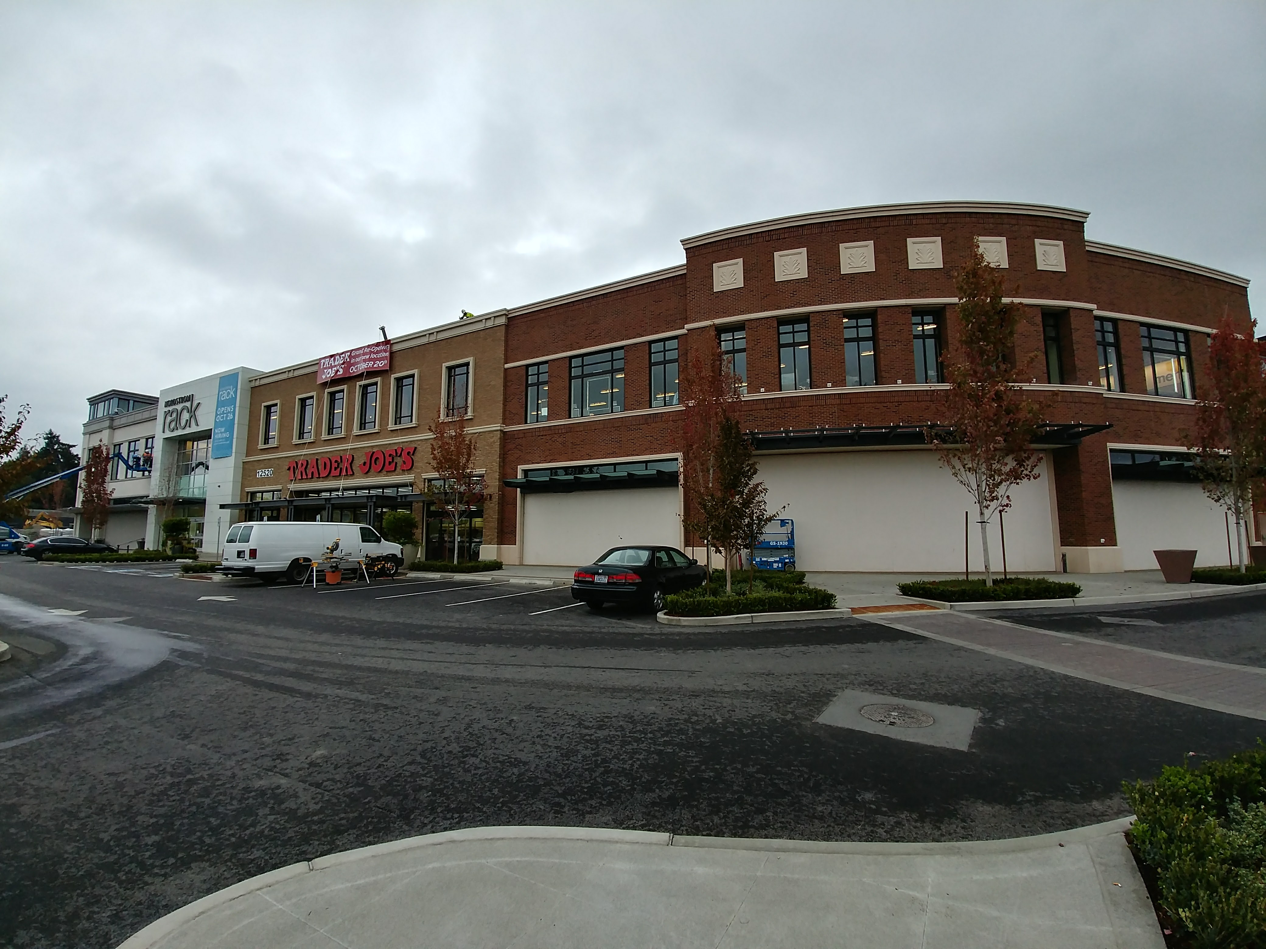 The Village at Totem Lake, a mall in Kirkland Washington, under construction in October 2017. Taken in front of the relocated Trader Joe's. A new Nordstrom Rack is visible to the left. A sign is visible advertising the Trader Joe's opening in about one week.